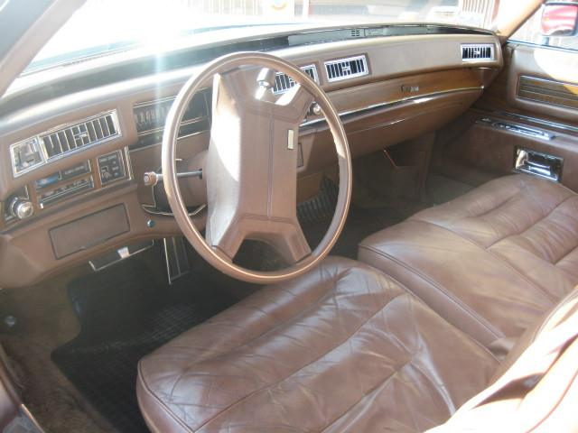 ACRS (Air Cushion Restraint System, or Airbags) equipped cars were rare even when new. So it amazes me to see one in Italy!